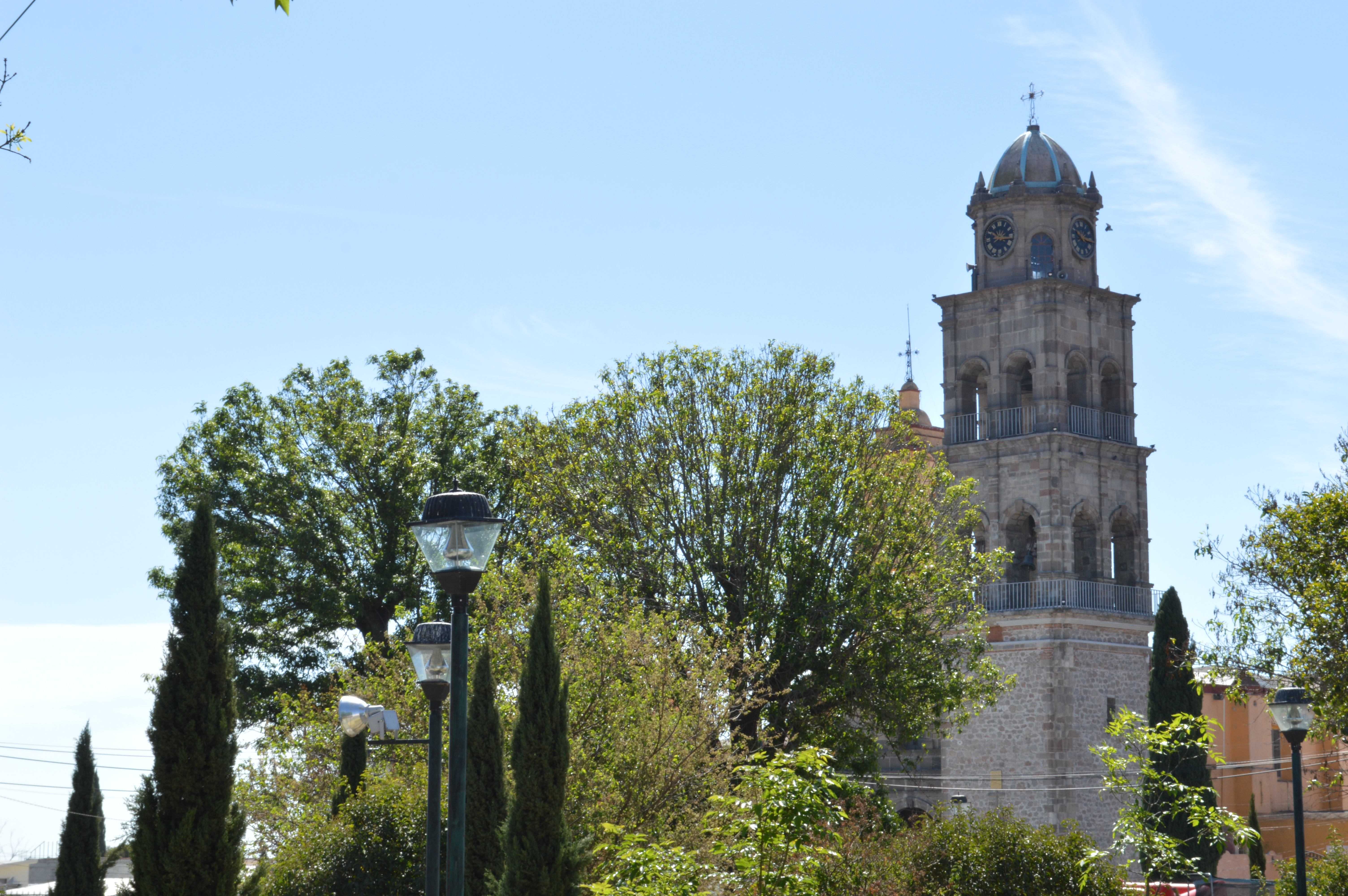 Looking across main plaza toward the San Juan Bautista Church in Ixtenco, Tlaxcala, Mexico